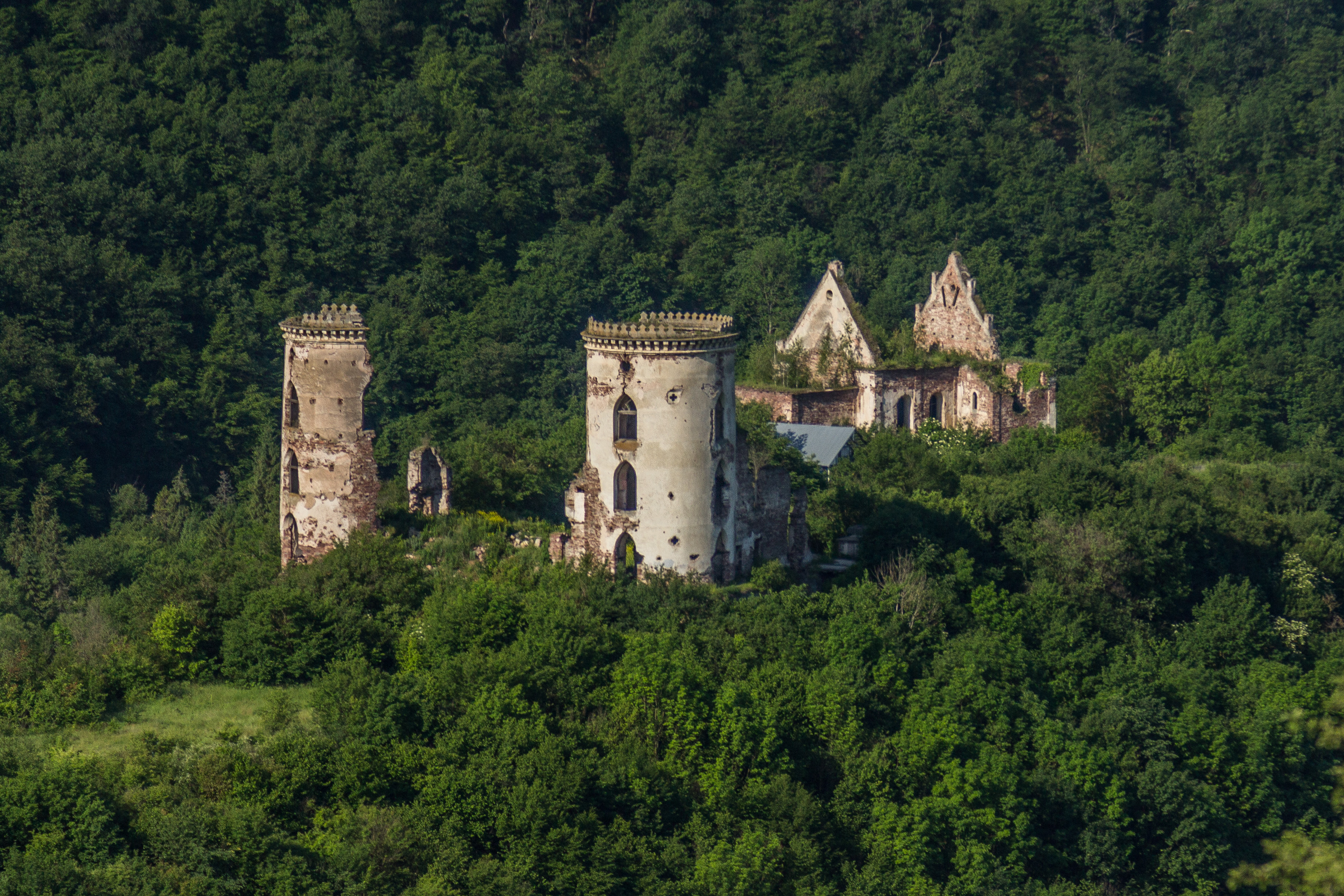 Червоногородський замок, загальний вигляд стан 2016 року